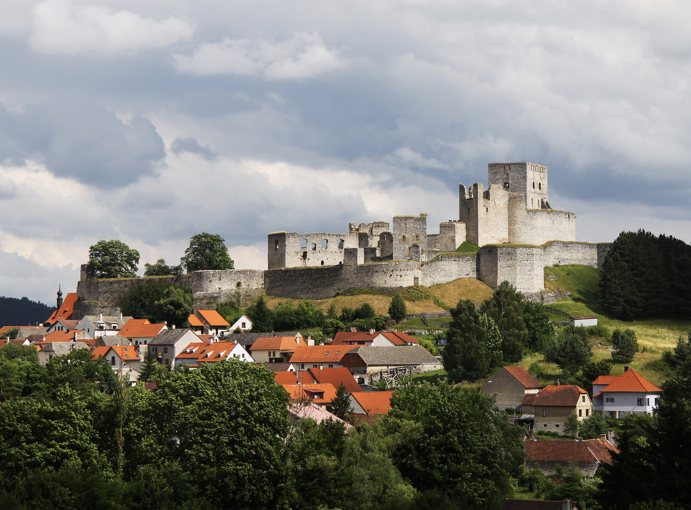 View of the Rabí castle and Rabí village in Klatovy District, Czech Republic